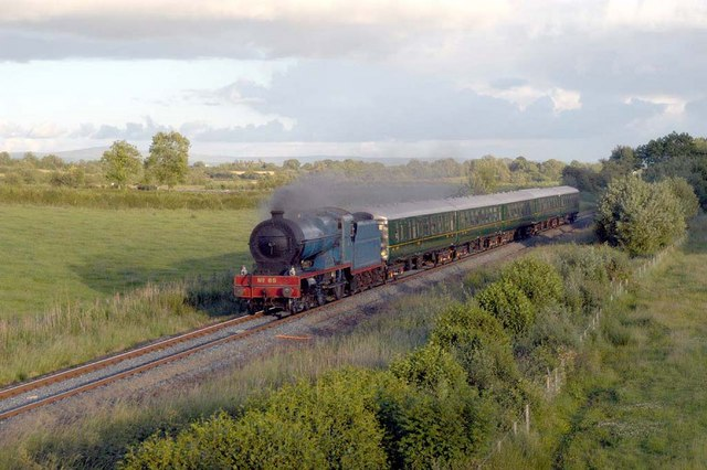 GNR Class V 4-4-0 steam locomotive 85 Merlin on an RPSI excursion train approaching Peter's Bridge, Co. Down, Northern Ireland